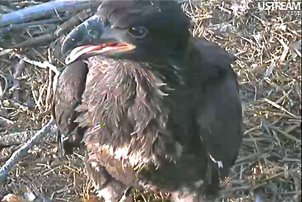 Screenshot of Decorah juvenile 2012 Spring season taken from Ustream.tv live feed